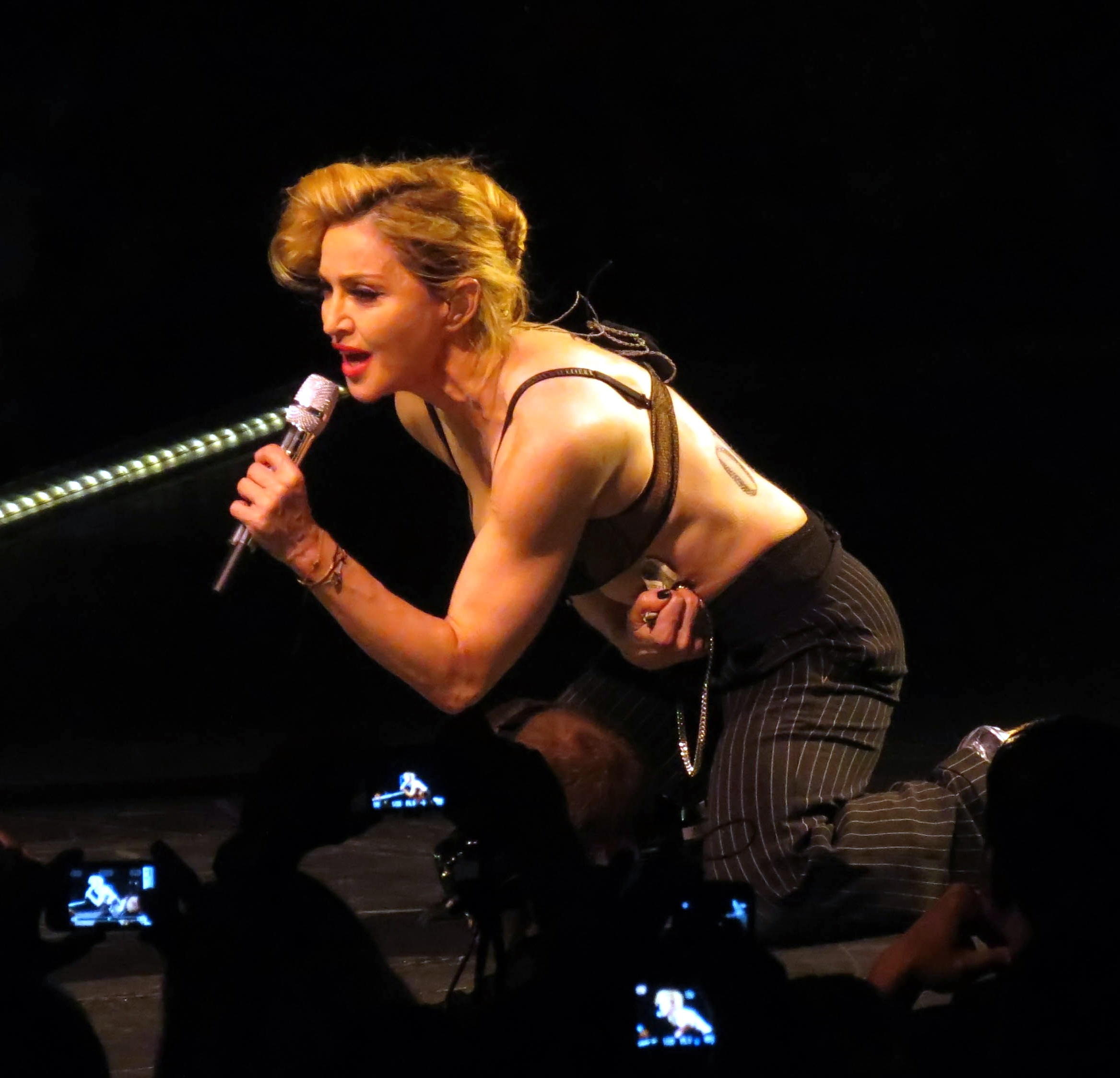 Madonna on The MDNA Tour Seattle